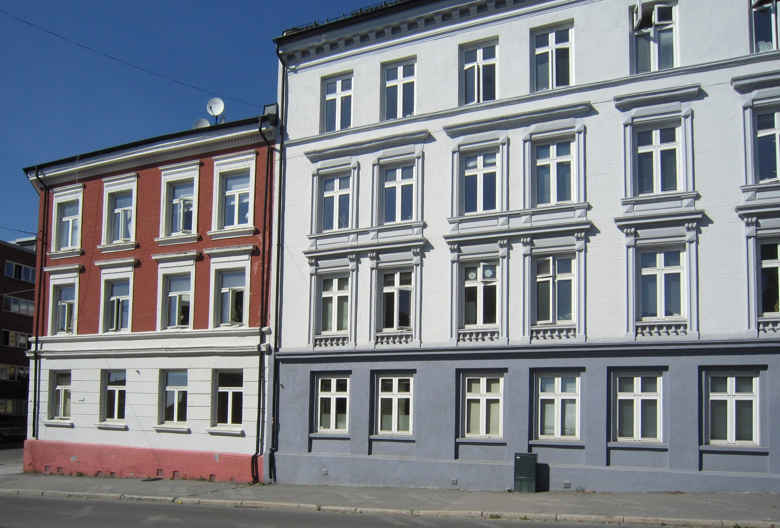 Brochmanns gate (street) at Bjølsen in Oslo, Norway.